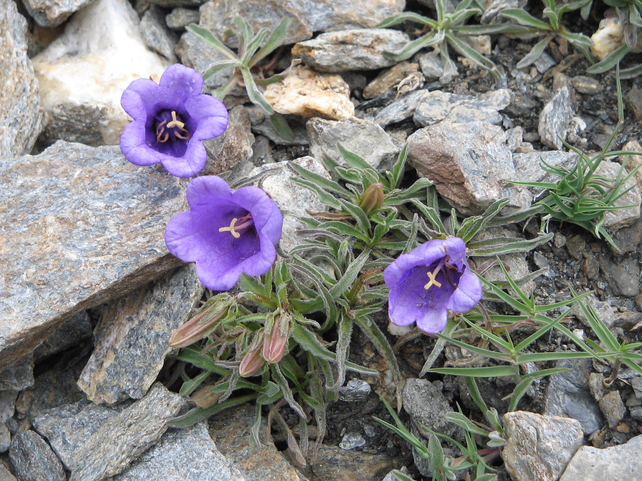 Campanula alpestris dans la Vanoise